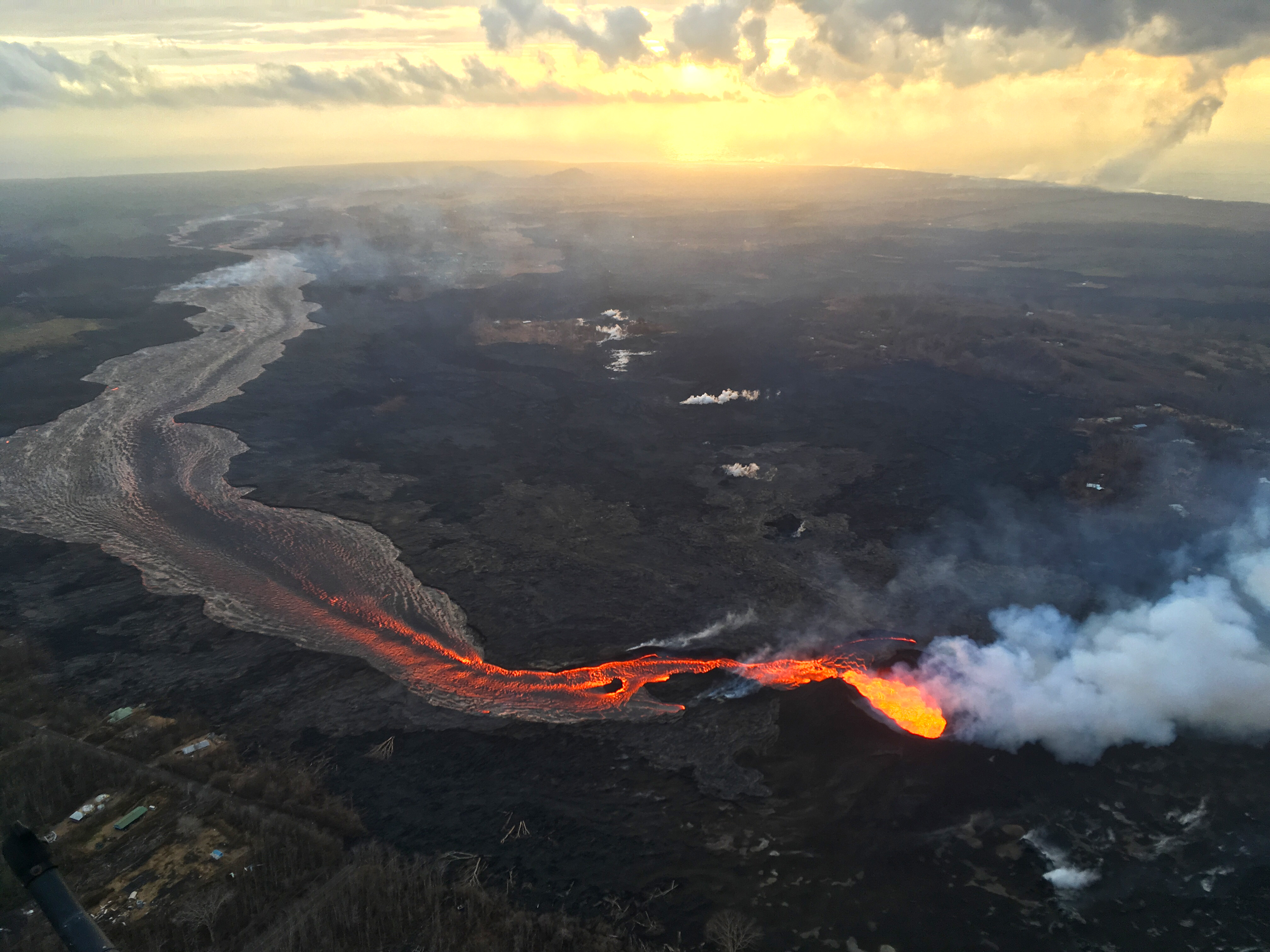 Kīlauea's 2018 lower Puna eruption. During this morning's overflight, USGS scientists captured this image of sunrise above Kīlauea's lower East Rift Zone. Fissure 8 continues to feed a channelized lava flow that reaches the ocean, forming a large plume at the coast (upper right). USGS